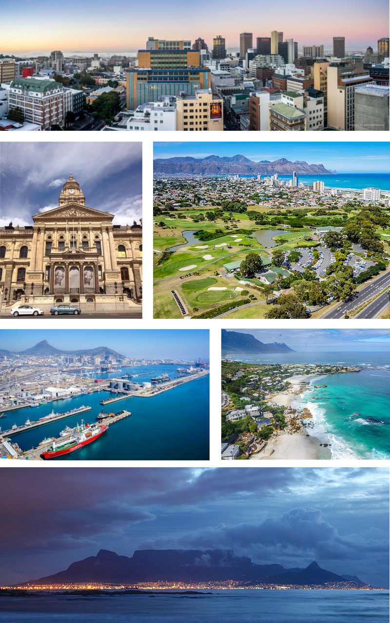 addds sdds